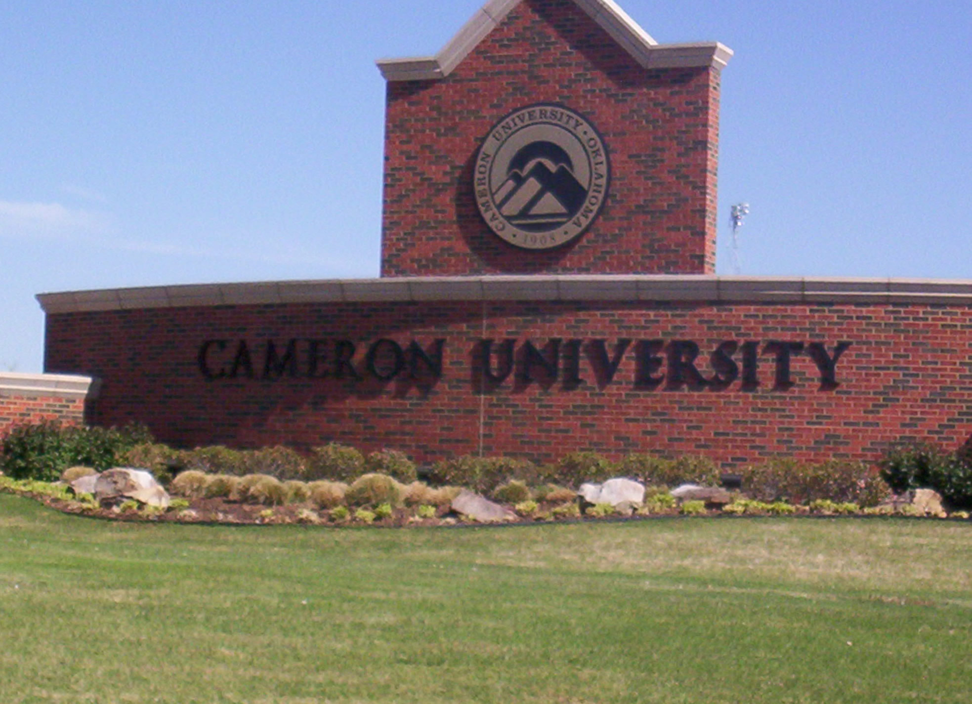 A picture of a sign that is in front of Cameron University Lawton, Oklahoma.